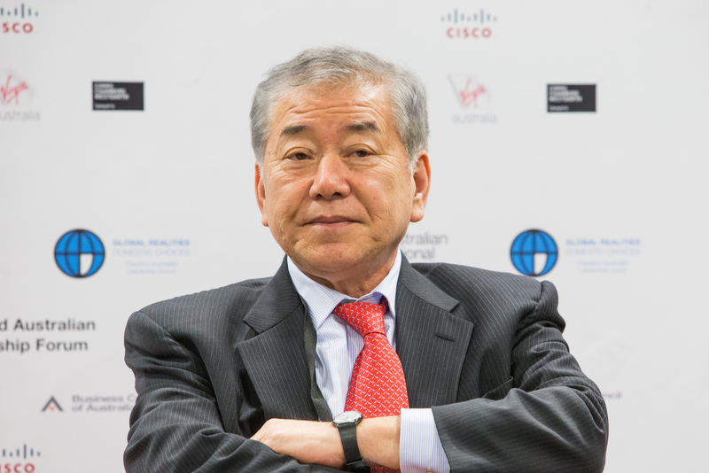 Professor Chung-in Moon at CogitASIA conference taken by Crawford Forum stored on Flickr.